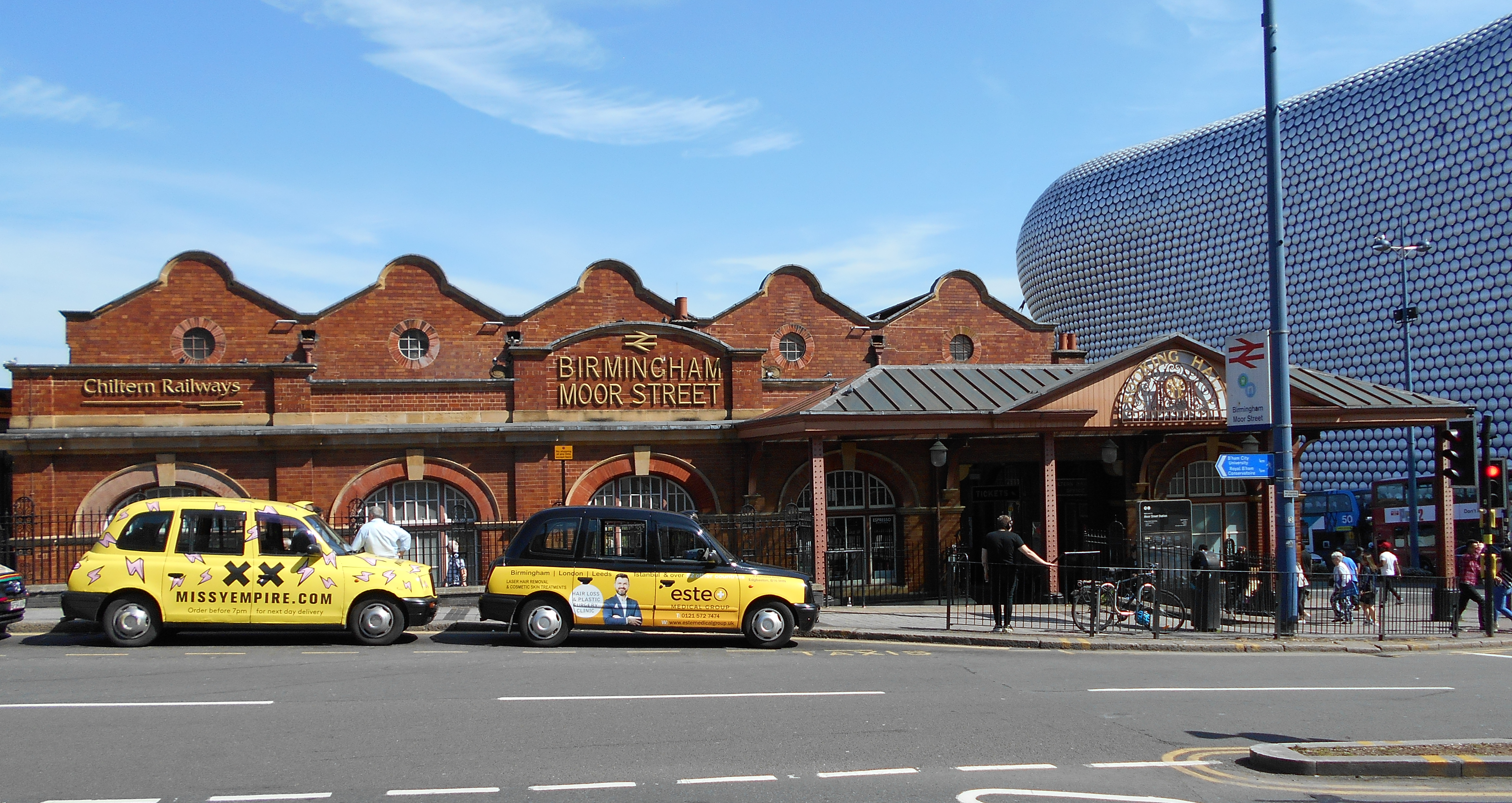 Exterior of Birmingham Moor Street station